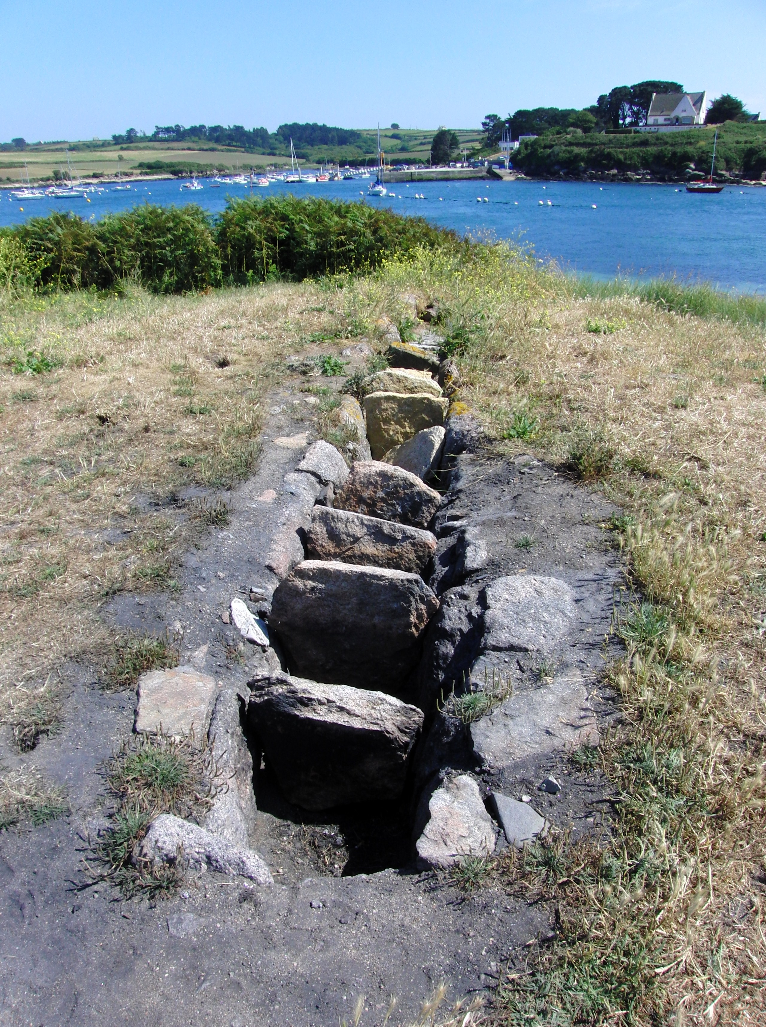 Wrack's Oven in Bretagne, Porspoder in France